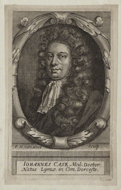 Portrait of John Case (c.1660–1700), English astrologer.